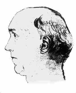 Portrait of British mathematician Edward Troughton (1753-1835)